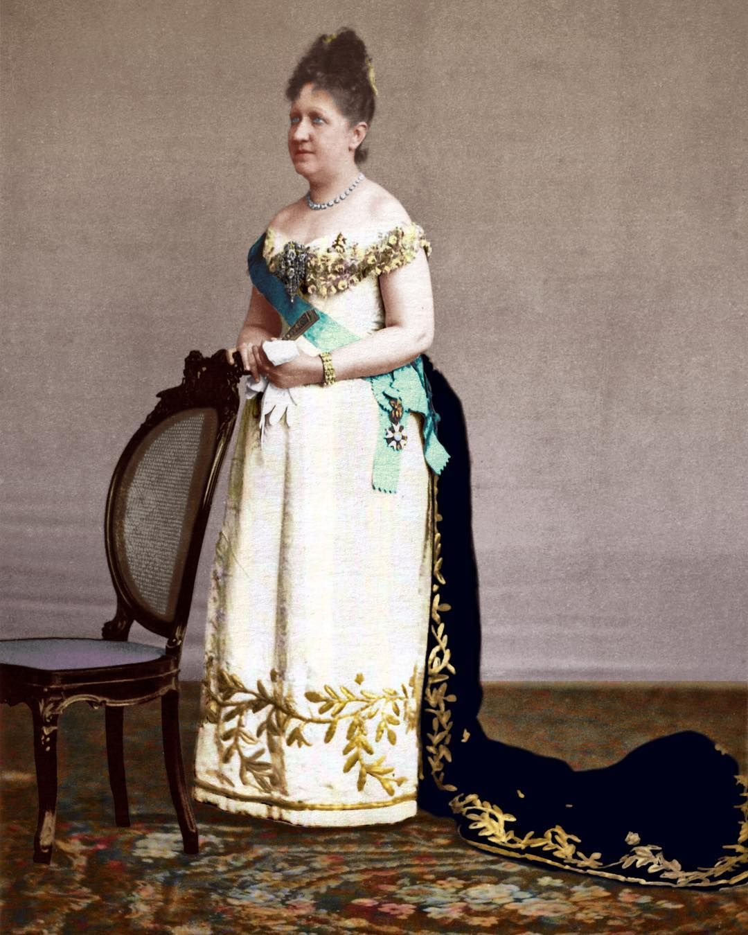 Isabel - Princess Imperial of Brazil